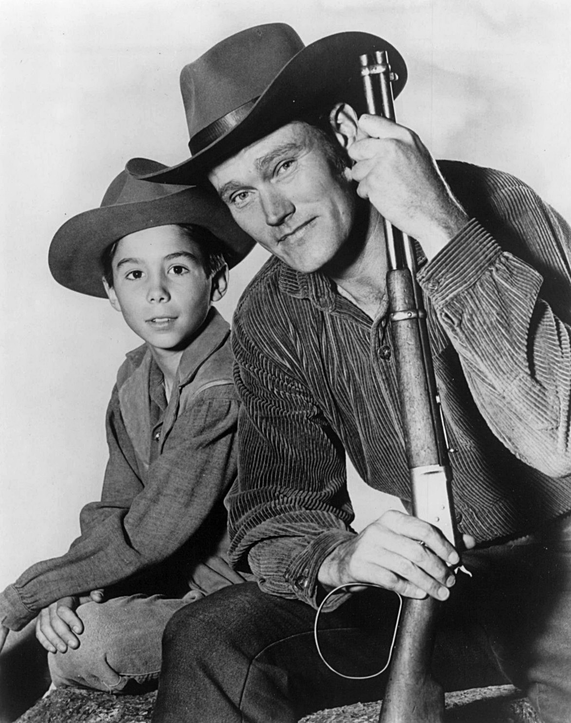 Photo of Chuck Connors as Lucas McCain and Johnny Crawford as his son, Mark, from the television program The Rifleman.